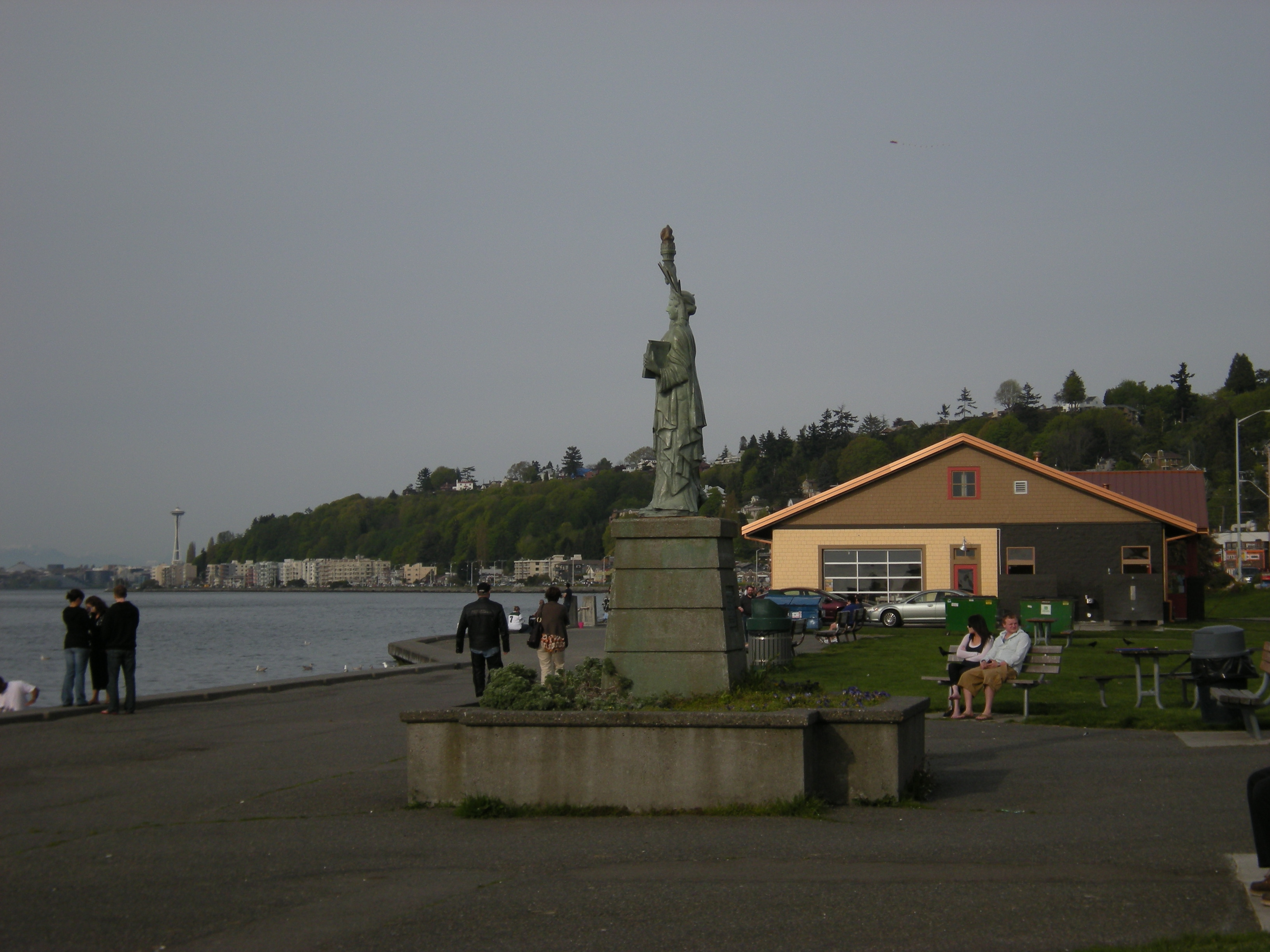 Small replica of the Statue of Liberty on Alki Beach, Seattle, Washington, U.S. near the site of the landing of the Denny Party, generally considered the founders of Seattle. The current statue, erected September 2007 is in bronze. It is a replica of a statue erected 1952 on this site; that one was plaster sheathed in copper. The Space Needle is visible in the distance at left.